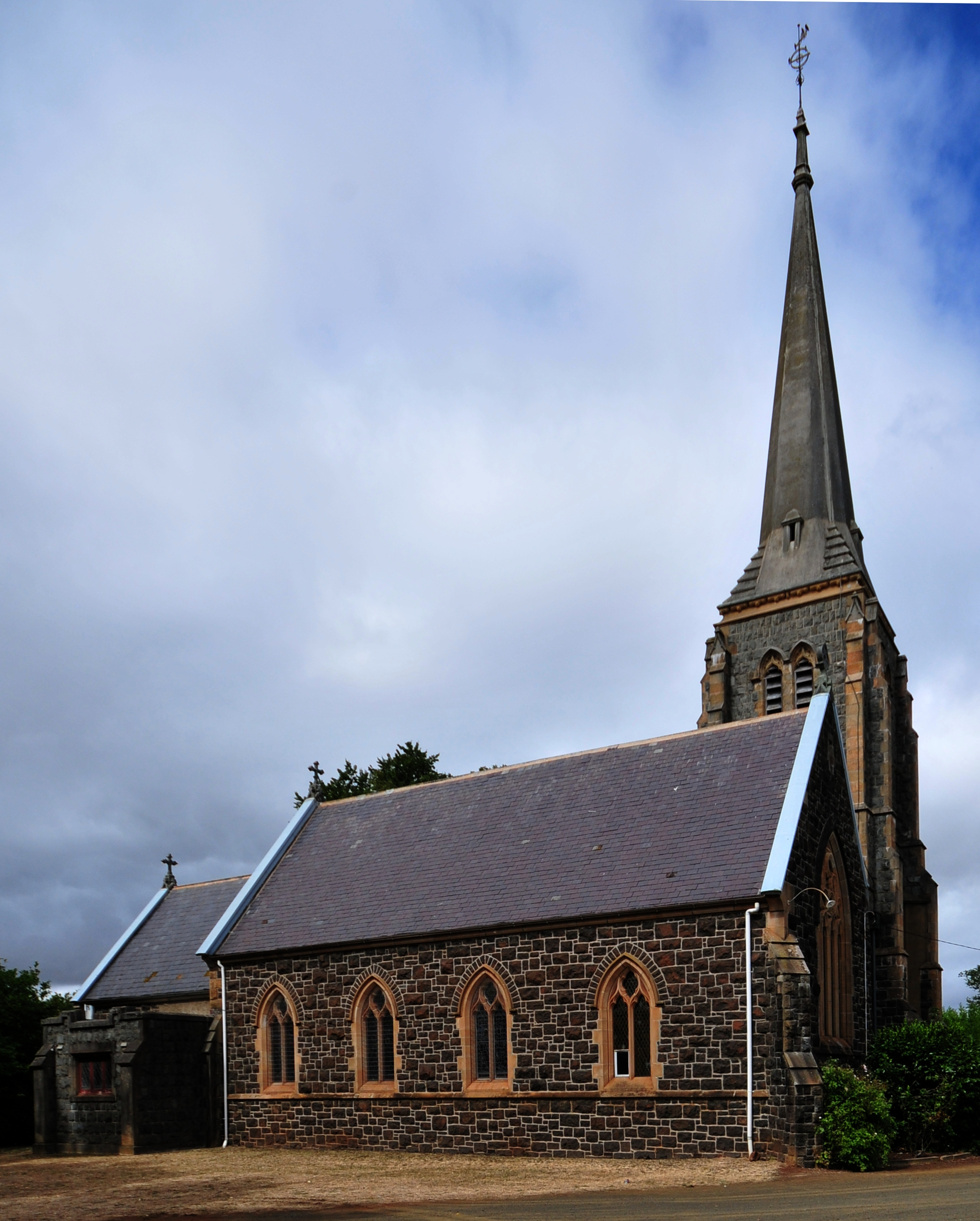 View of St Marys Anglican church from the rear carpark. Hagley, Tasmania, Australia